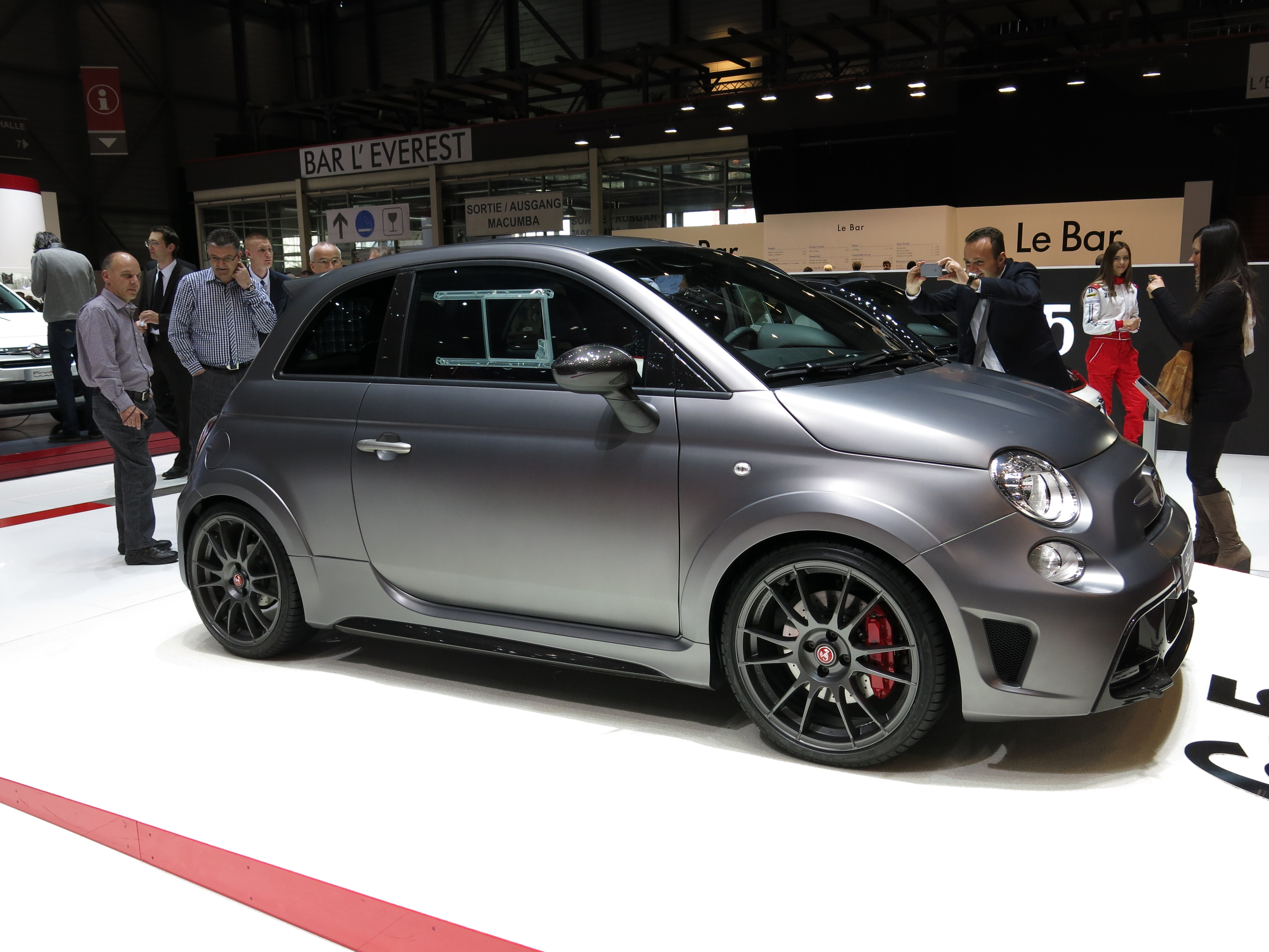 Geneva Motor Show 2015 (photo taken on the first press day)